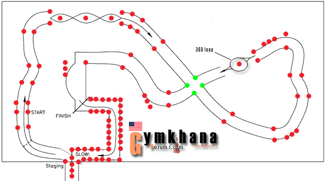 This is a basic map of what Gymkhana Forums . com uses at their gymkhana events.